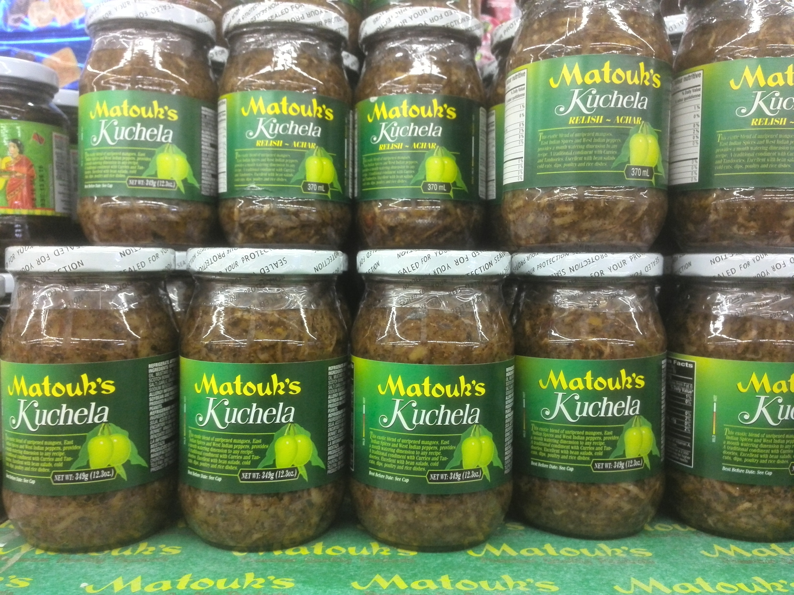 Kuchela jars in a supermarket in Chaguanas, Trinidad.